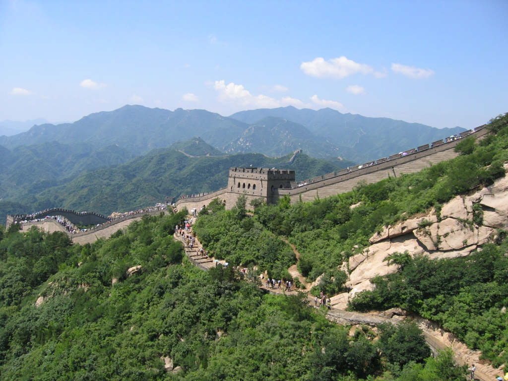 The Great Wall of China at Badaling